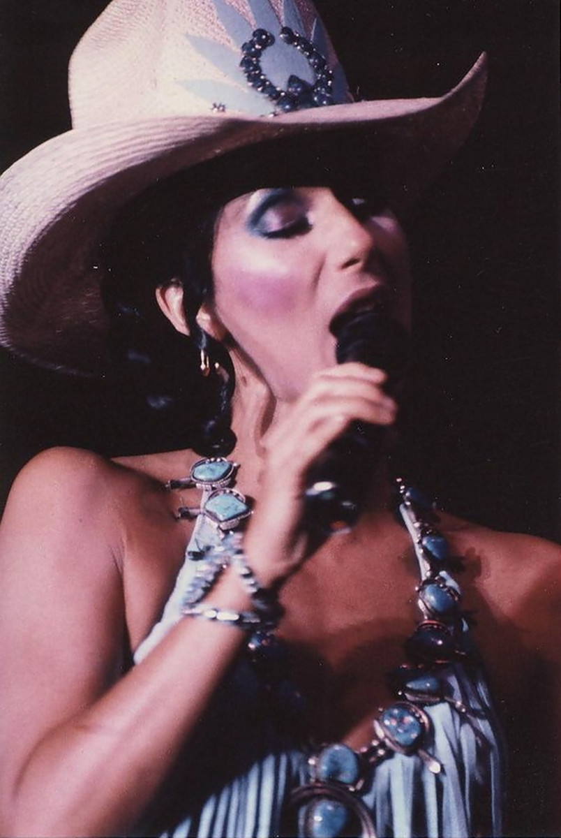 Photo of Cher performing live in Las Vegas (1981).